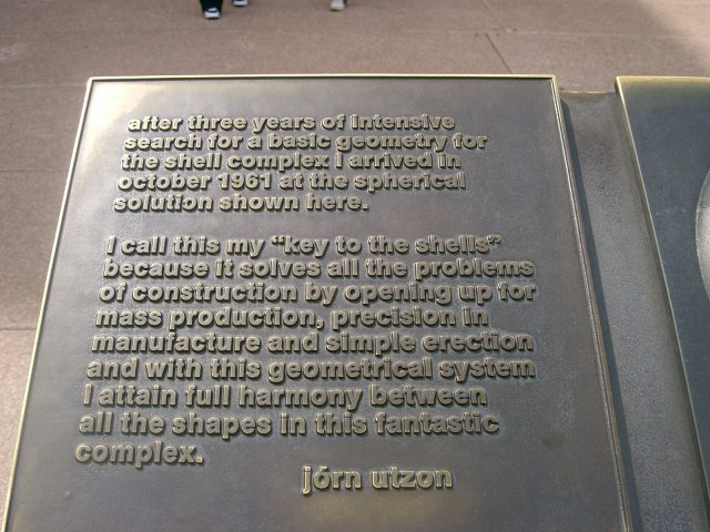 Sydney Opera House. Bronze with Jørn Utzon's words: “After three years of intensive search for a basic geometry for the shell complex, I arrived in October 1961 with the spherical solution shown here. I call this my key to the shells because it solves all the problems of construction by opening up for mass production and precision in manufacture and simple erection and with this geometrical system I attain full harmony between all the shapes in this fantastic complex.” Bronce con palabras de Jørn Utzon: "Luego de tres años de búsqueda intensiva de una geometría básica para el comlejo de conchas, llegué en octubre de 1961 a la solución esférica que aquí se expone. Denomino a esto mi llave a las conchas porque resuelve todos los problemas de construcción abriendo paso a la producción masiva y de precisión en la industria y la construcción simple y con este sistema geométrico obtengo plena armonía entre todas las formas de este fantástico complejo".